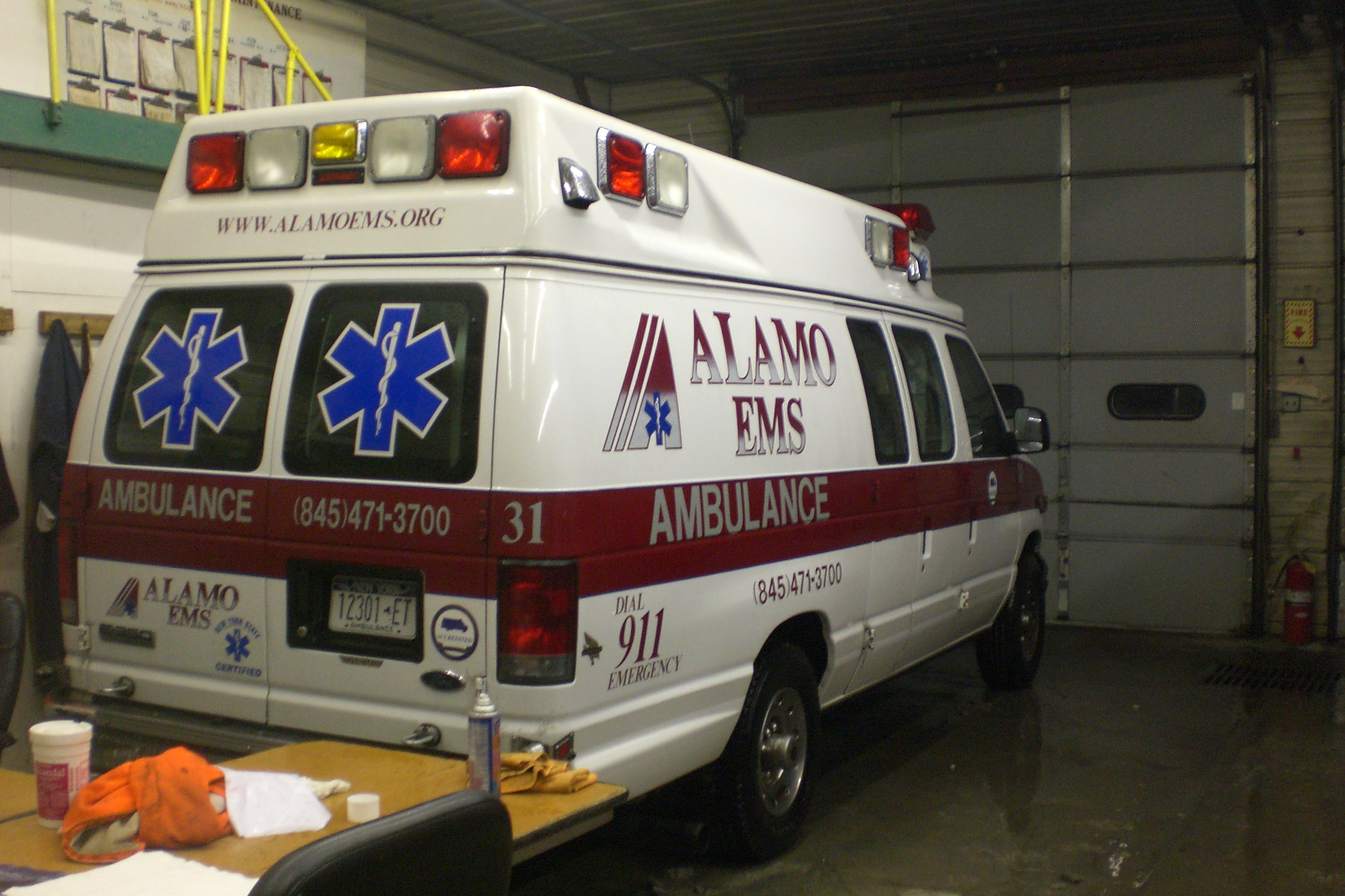 Alamo EMS Medic 31 at Post 10, at the stations last day of operation